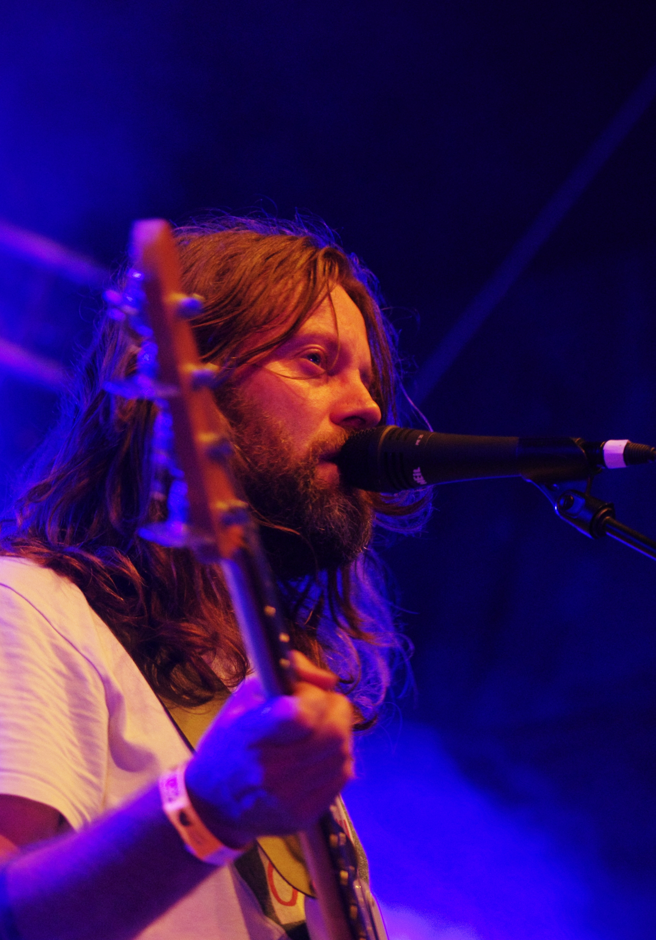 Motorpsycho at Krach am Bach festival in Beelen. Lineup: Bent Sæther (bass/guitar/vocals), Hans Magnus "Snah" Ryan (guitar/vocals), Kenneth Kapstad (drums), Reine Fiske (guitar).